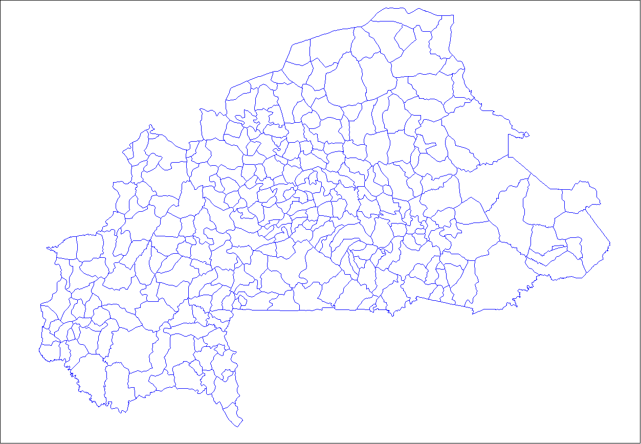 This map has been uploaded by Electionworld from to enable the Wikimedia Atlas of the World . Original uploader to was Rarelibra, known as Rarelibra at . Electionworld is not the creator of this map. Licensing information is below. Map of the departments of Burkina Faso. Created by Rarelibra for public domain use. Created using MapInfo Professional v7.5 and various mapping resources.